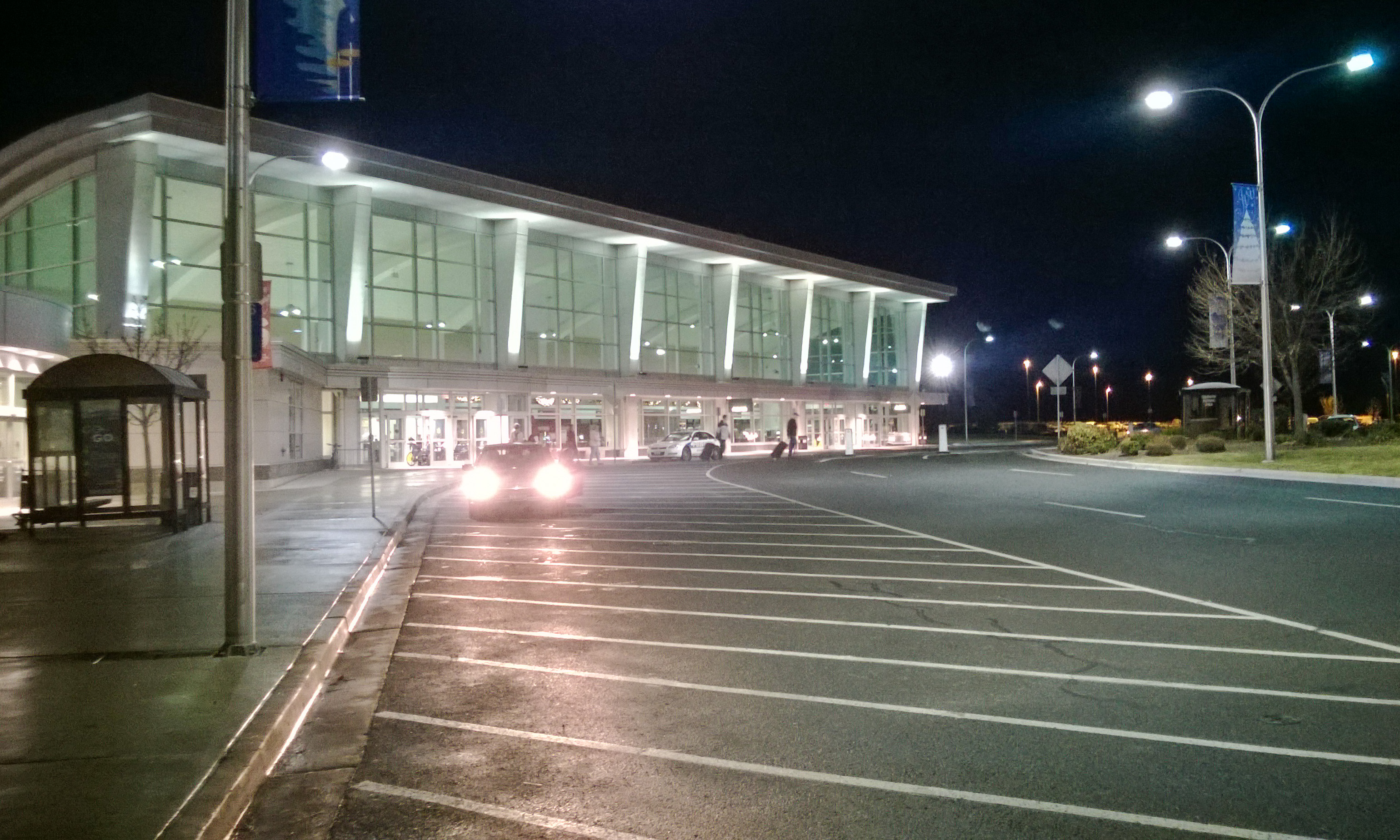 Night photo of the front of Concourse C at Spokane International Airport.